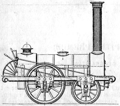 Drawing of Robert Stephenson's type 2-2-0 steam locomotive Planet, 1830. (Source misdates it as 1832.)